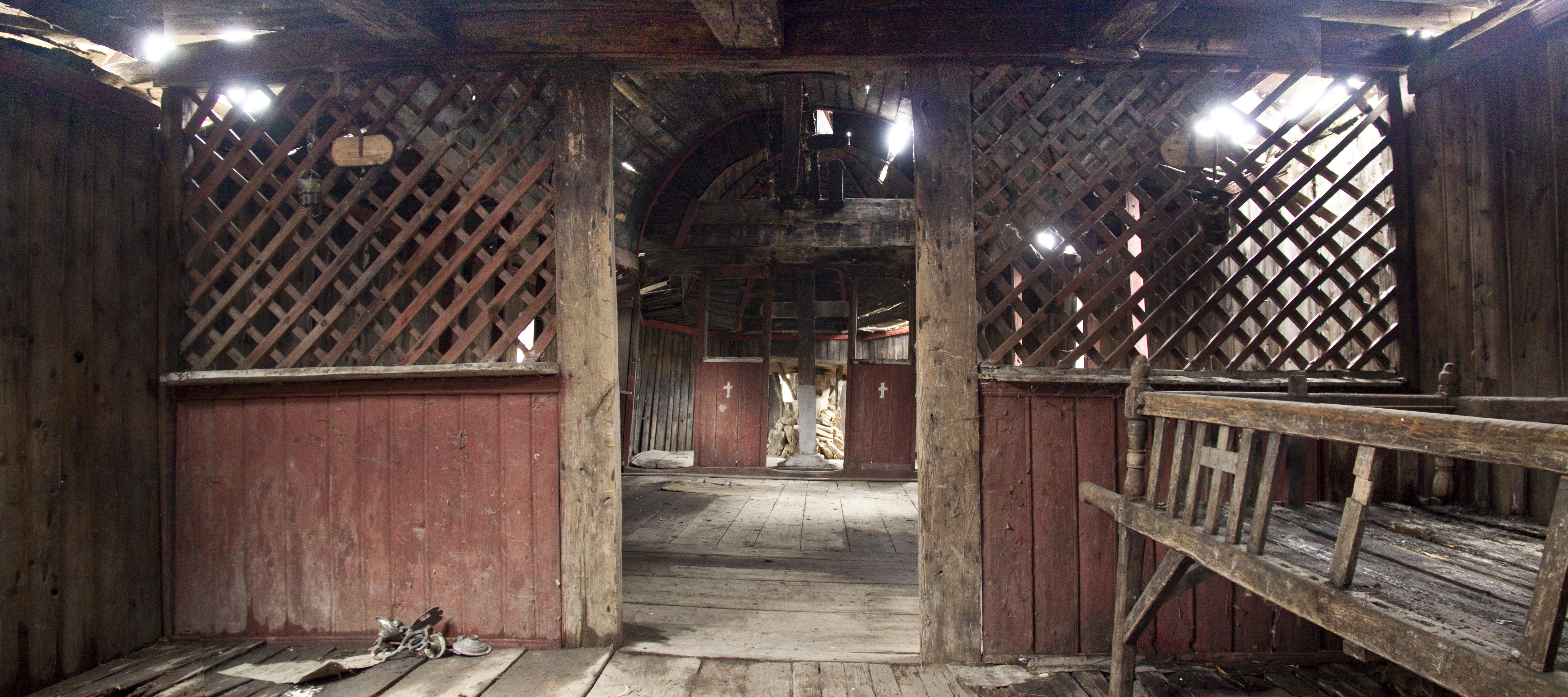 Puranii de Sus, Teleorman county, Romania: the wooden church.